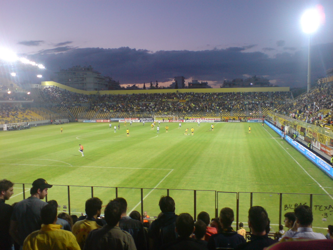 Kleanthis Vikelides Stadium on a matchday.